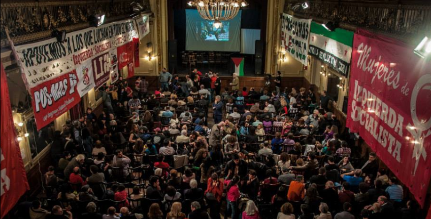 Congreso de Fusión UIT-CI y CEI